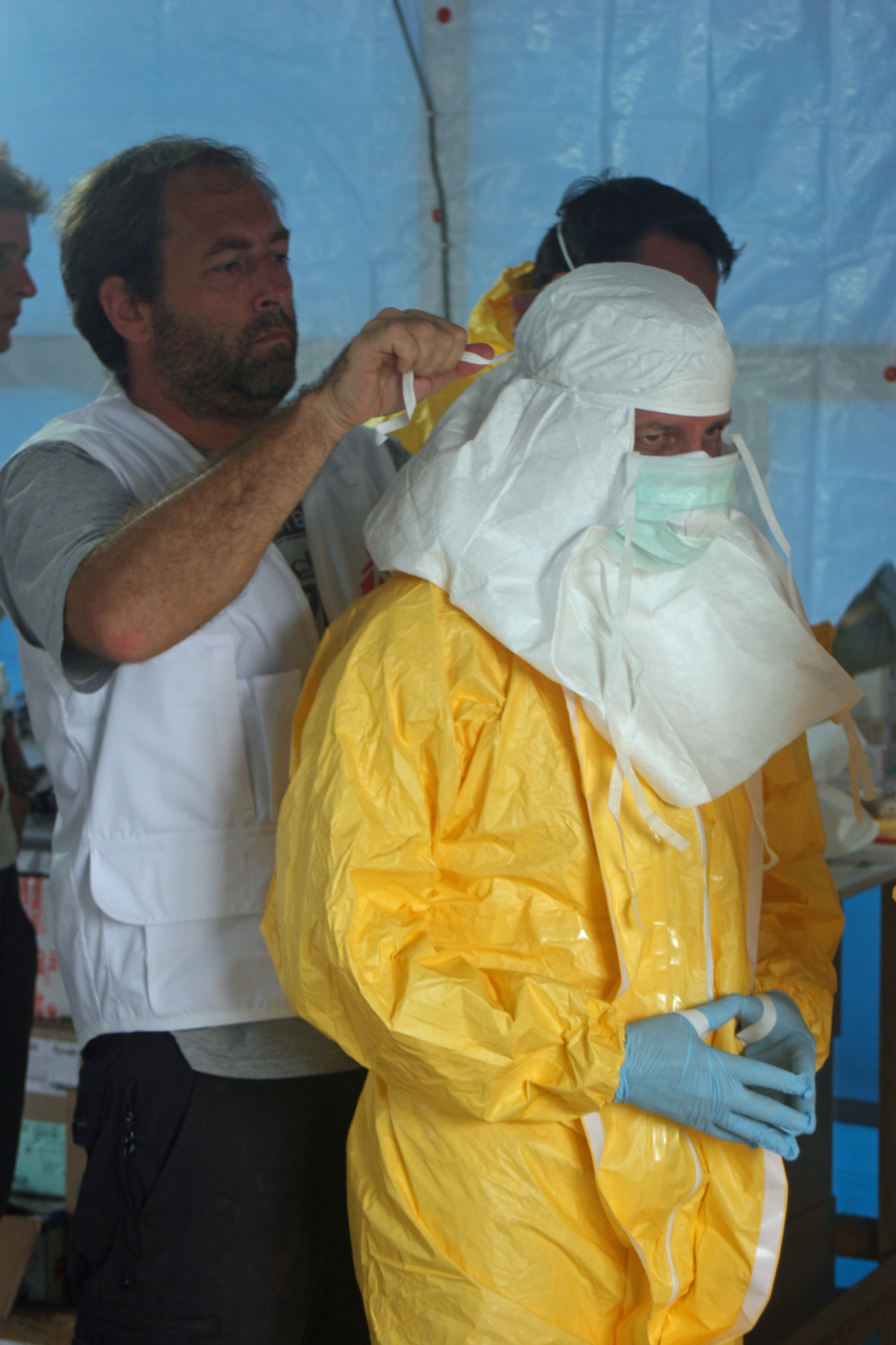 A Médecins Sans Frontières/Doctors Without Borders (MSF) staff member ties the face mask of Dr. Tom Kenyon, Director of CDC’s Center for Global Health, before Dr. Kenyon enters the Ebola treatment unit (ETU), ELWA 3. MSF operates the ELWA 3 ETU, which opened on August 17. Photographer: Athalia Christie For more information on Ebola and what CDC is doing, please visit